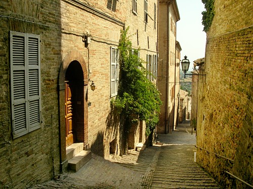 In the historical centre of the city Fermo, a city in Marche in Italy. Fermo